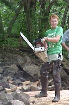 A Girl Scout working on her Gold Award Project